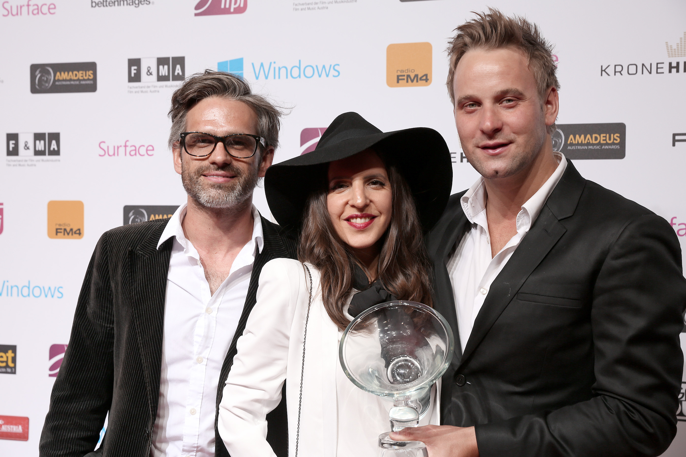 Members of Parov Stelars band at the Amadeus Austrian Music Award 2014 at Volkstheater in Vienna